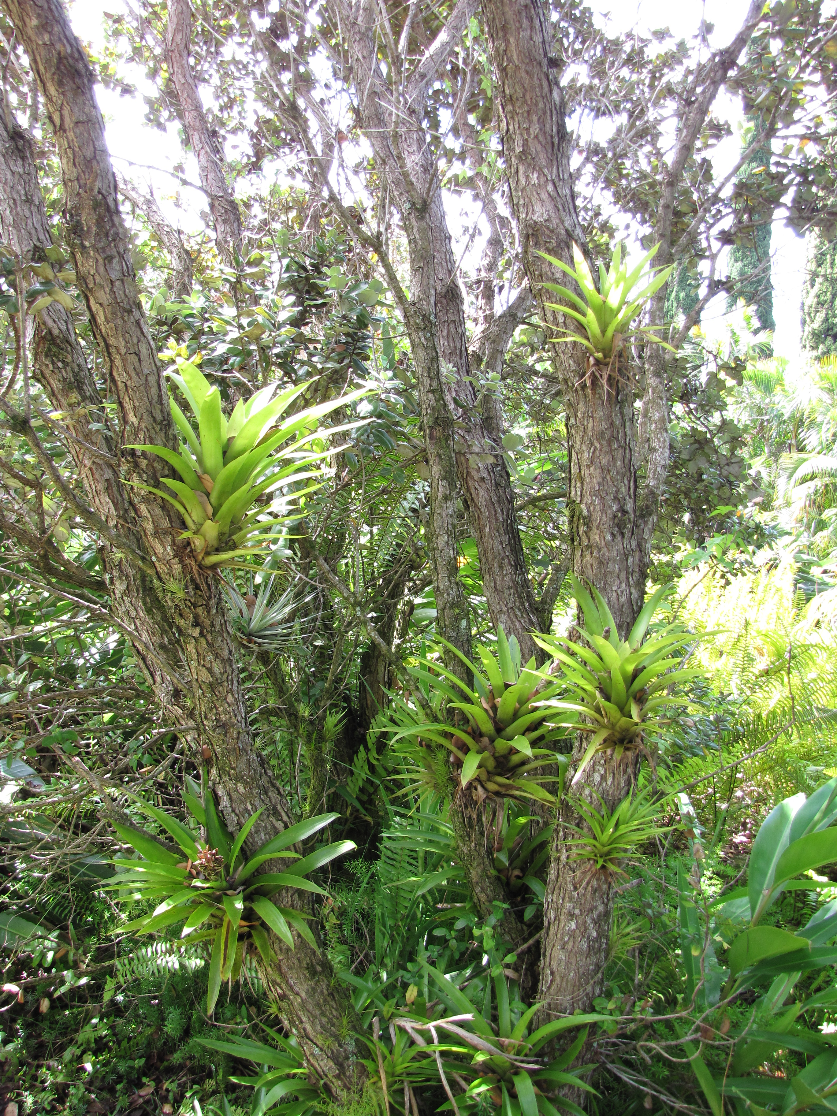 A photo of Guzmania monostachi located at the Enchanting Floral Gardens of Kula, Maui.